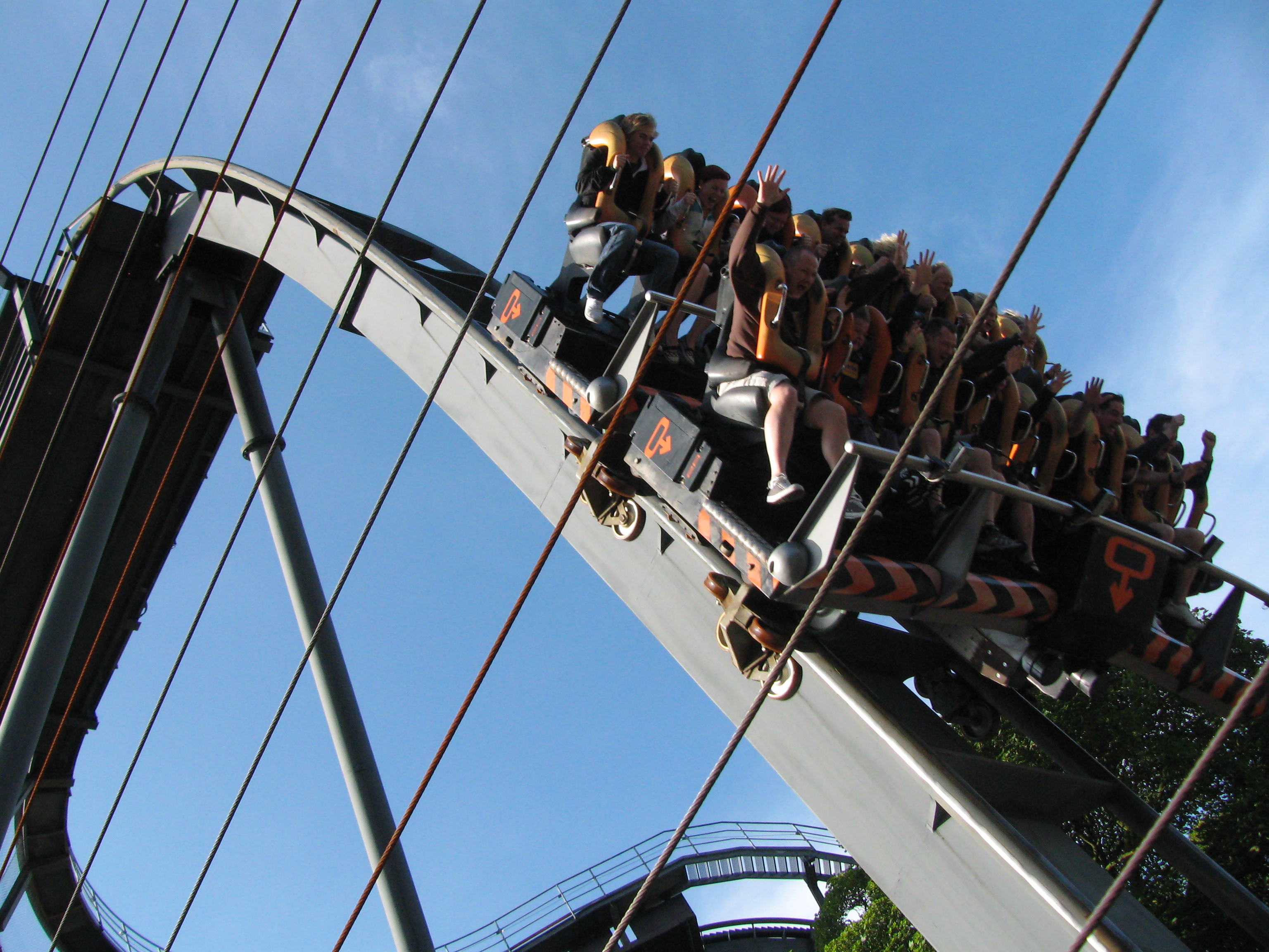 Oblivion drop, taken from observation area at Alton Towers Theme Park, Staffordshire.